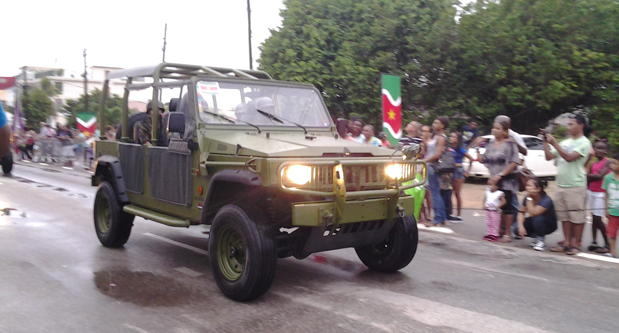 Suriname army